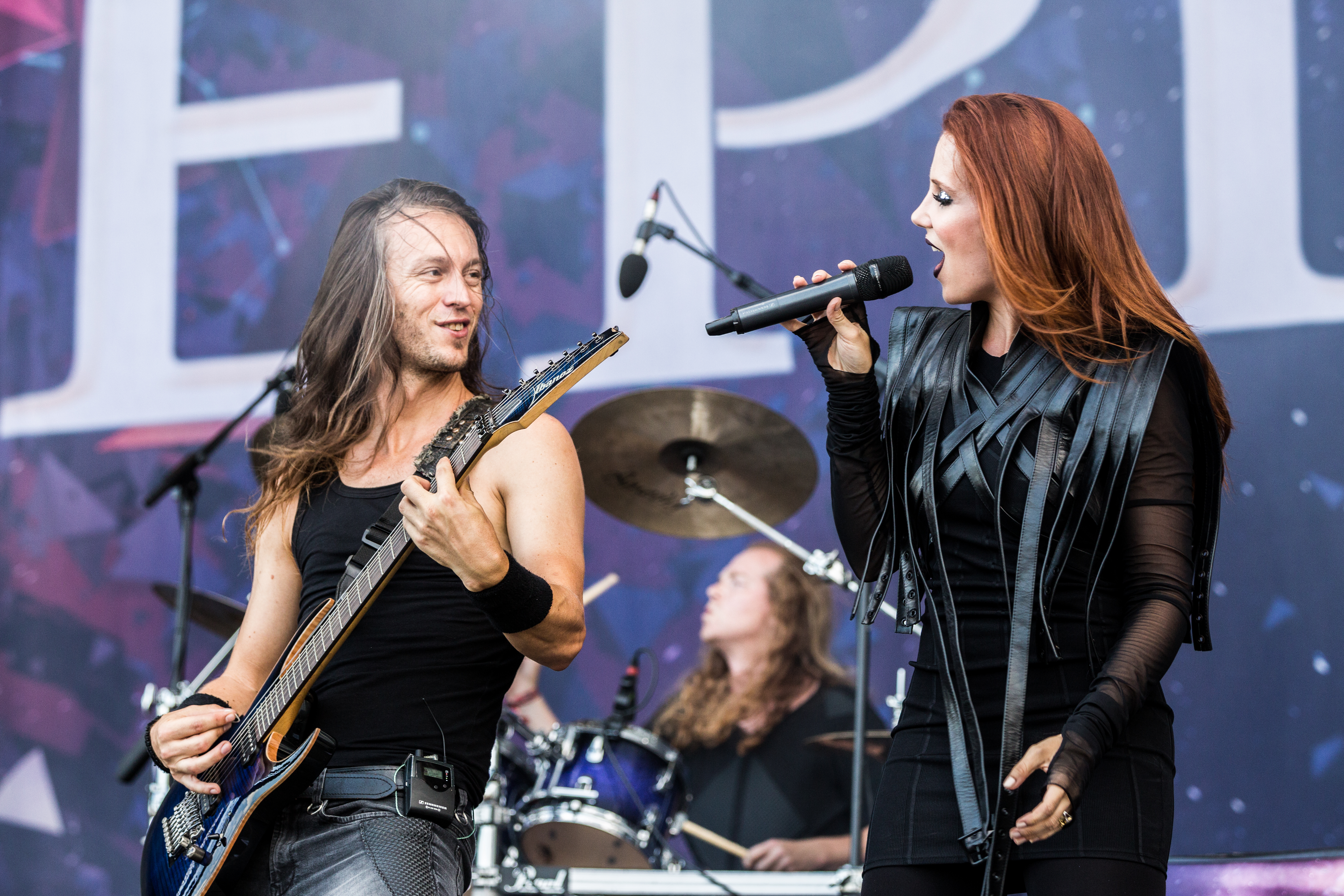 The Dutch symphonic metal band Epica at the Summer Breeze Open Air 2017 in Dinkelsbühl/Germany.